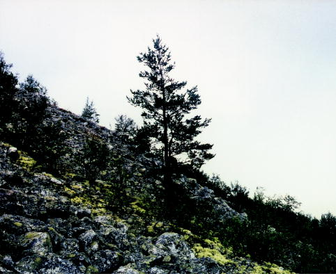 Pine tree representing elevational tree-limit rise by 105 m over the period 1915–1974. Nipfjället, Sweden. Photo: L. Kullman, 28 July, 1974